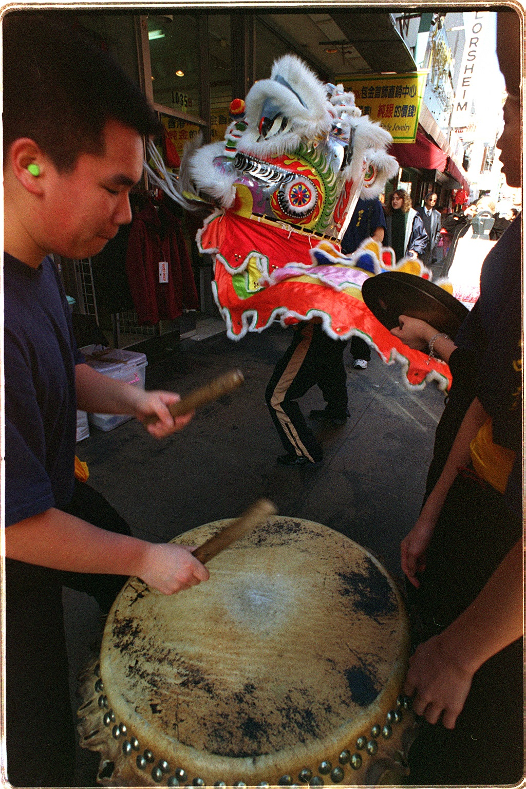 photo by Nancy Wong The Chinese consider the Lion as an animal symbolizing power, wisdom and good fortune.The lion dance is mostly performed at store and restaurant openings or to bless a new house or baby.Firecrackers and movements of the lion are used to scare away evil spirits and to bring harmony and prosperity.Chung Ngai Dance Troupe members visit merchants in San Francisco's Chinatown during the second weekend of festivities celebrating the Lunar Year of the Monkey and receive "lai see," a red envelope with a payment enclosed.San Francisco-based Chung Ngai Dance Troupe was founded in 1966 to promote Chinese culture through the teaching of folk and classical dance, drumming and martial arts.